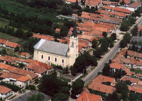 Cserépfalu, Hungary, aerial photography